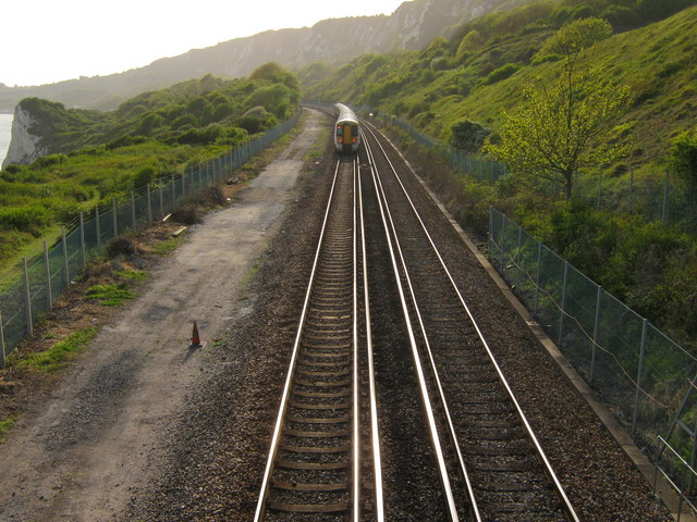 Railway and train to Folkestone This line leads along the base of East Wear Bay cliffs, towards Folkestone Central Station. It passes the Warren Country Park (on the right). The train had just passed under the footbridge on the trail/path in the Warren, coming from Dover Priory.